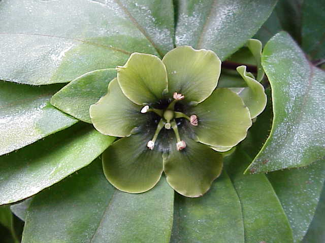 Species: Deherainia smaragdina Family: Theophrastaceae Image No. 1